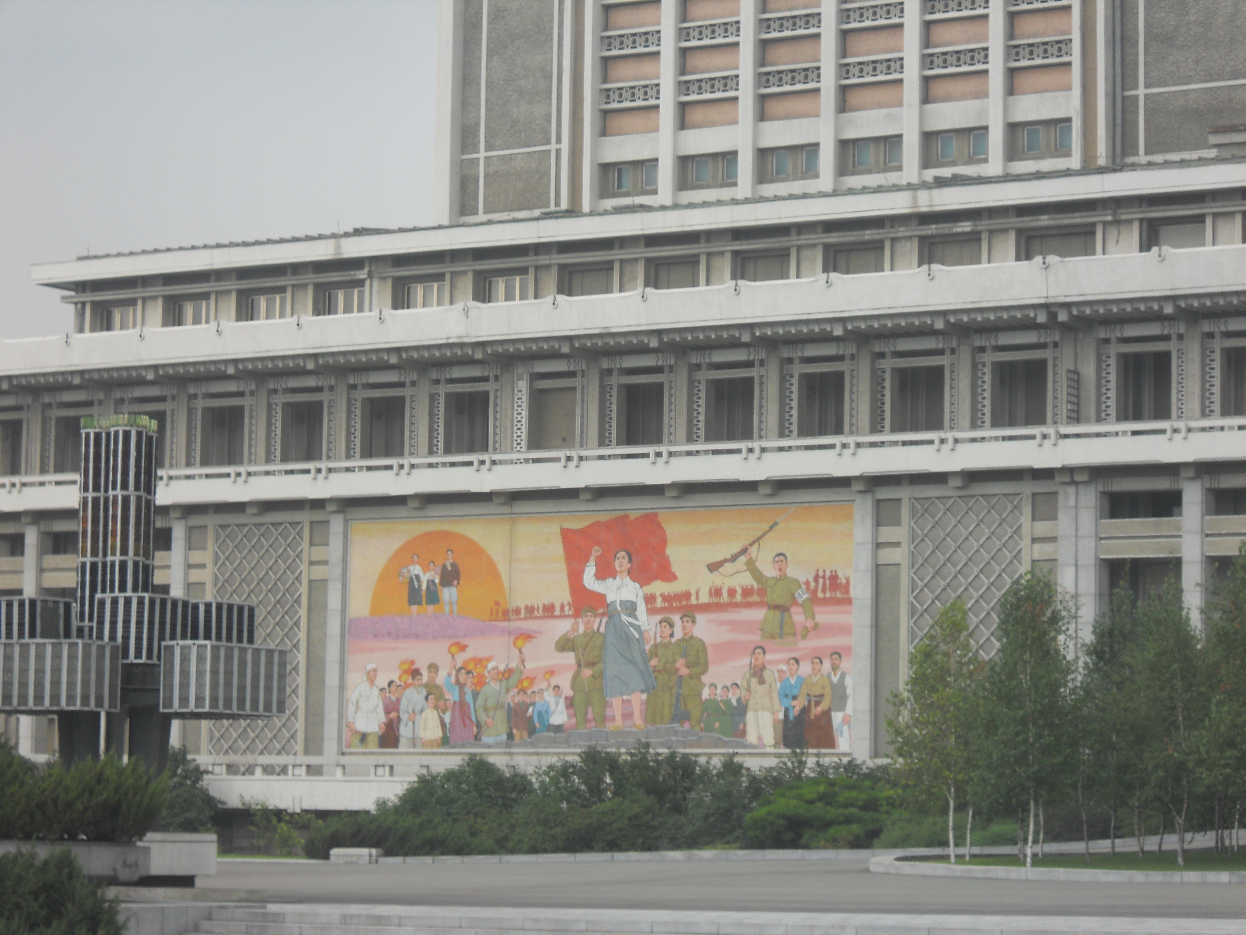 Mansudae Art Theater